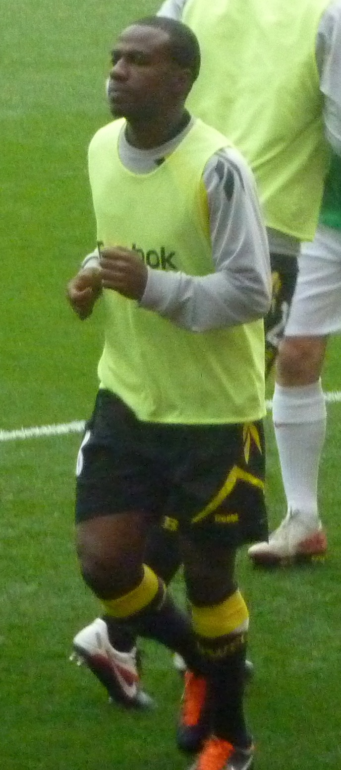 Fabrice Muamba of Bolton Wanderers warming up on the sidelines vs Arsenal, September 2011